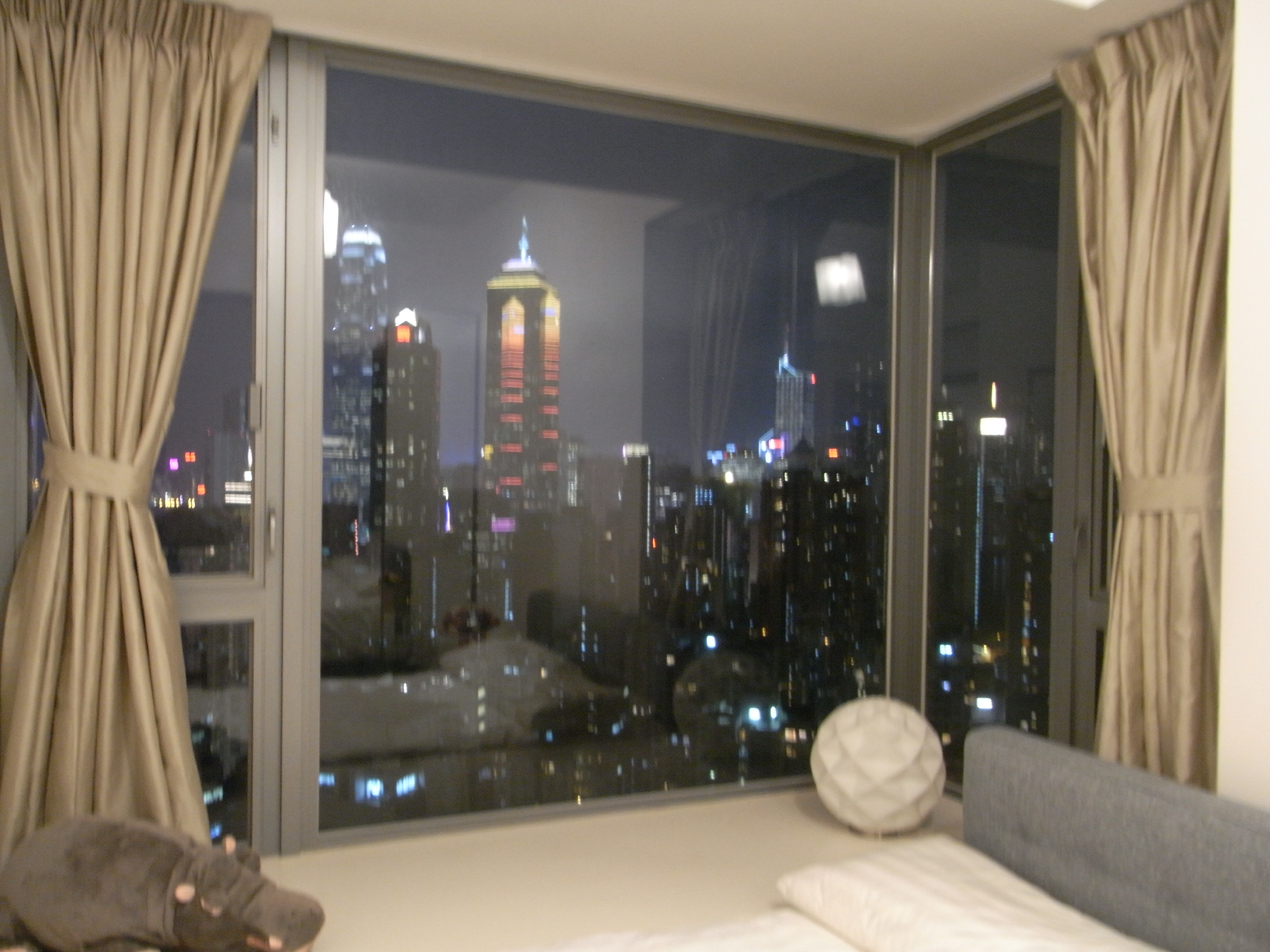 上環和風街盈峰一號